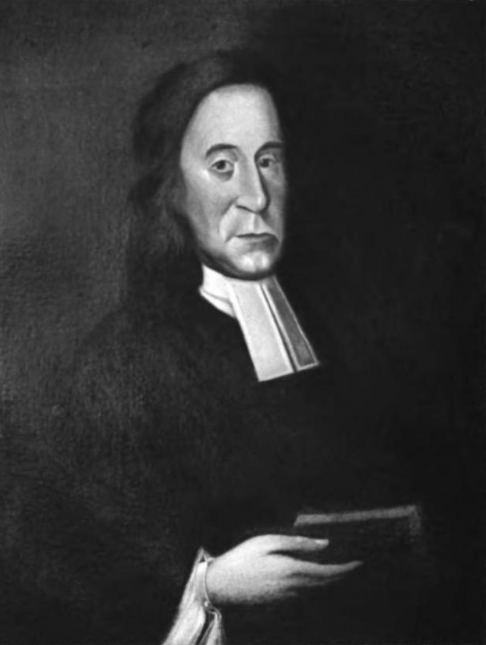 Portrait of minister Thomas Thacher from The New York Genealogical and Biographical Record, Volume 47, 1916, page 414, reproduced from a painting in the Museum of the Old South Church Association